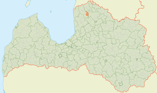 Location of Braslava Parish in Latvia